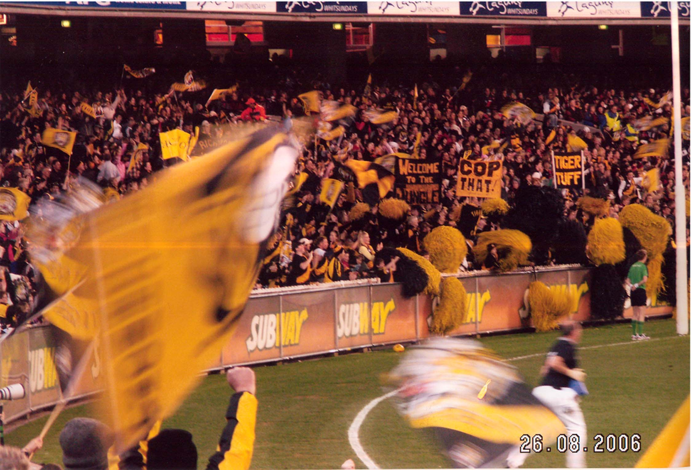 Richmond Cheer Squad Rd 21 2006 (Australian rules football)